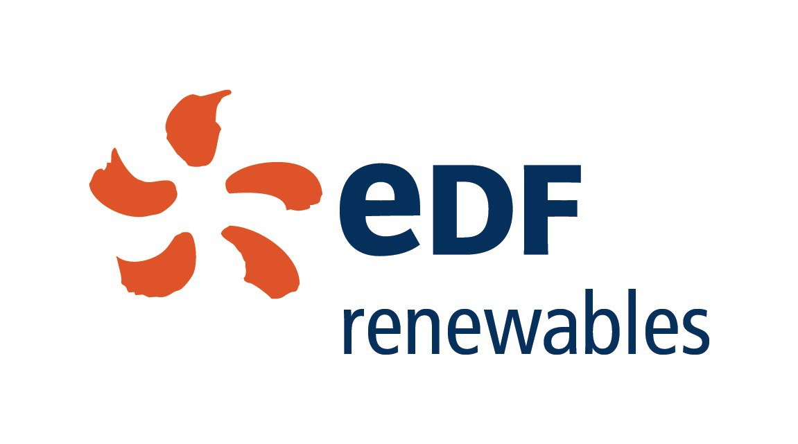 Logo of EDF's international subsidiary EDF Renewables